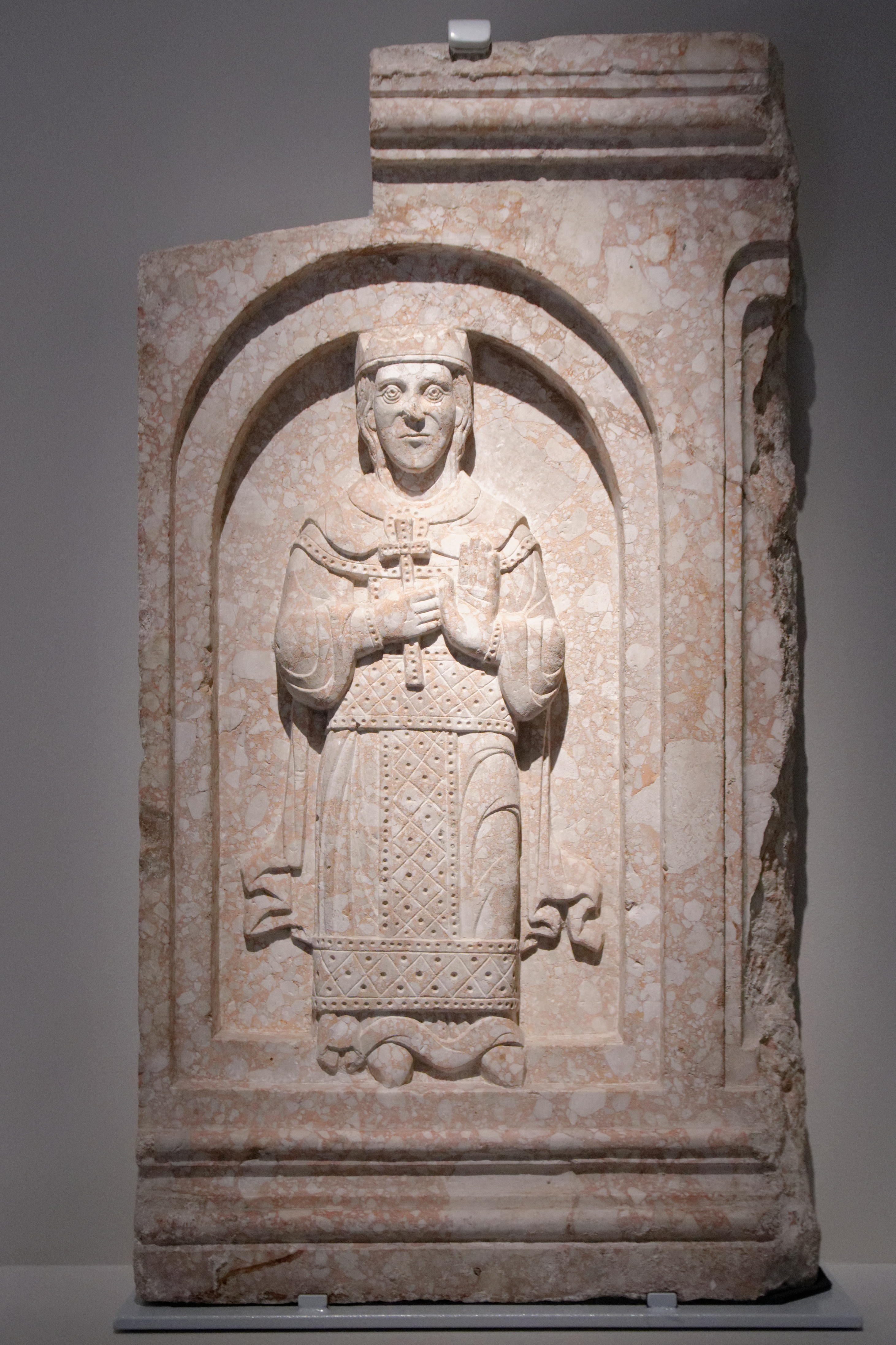 Relief with St Anastasia, from the cathedral of Zadar.